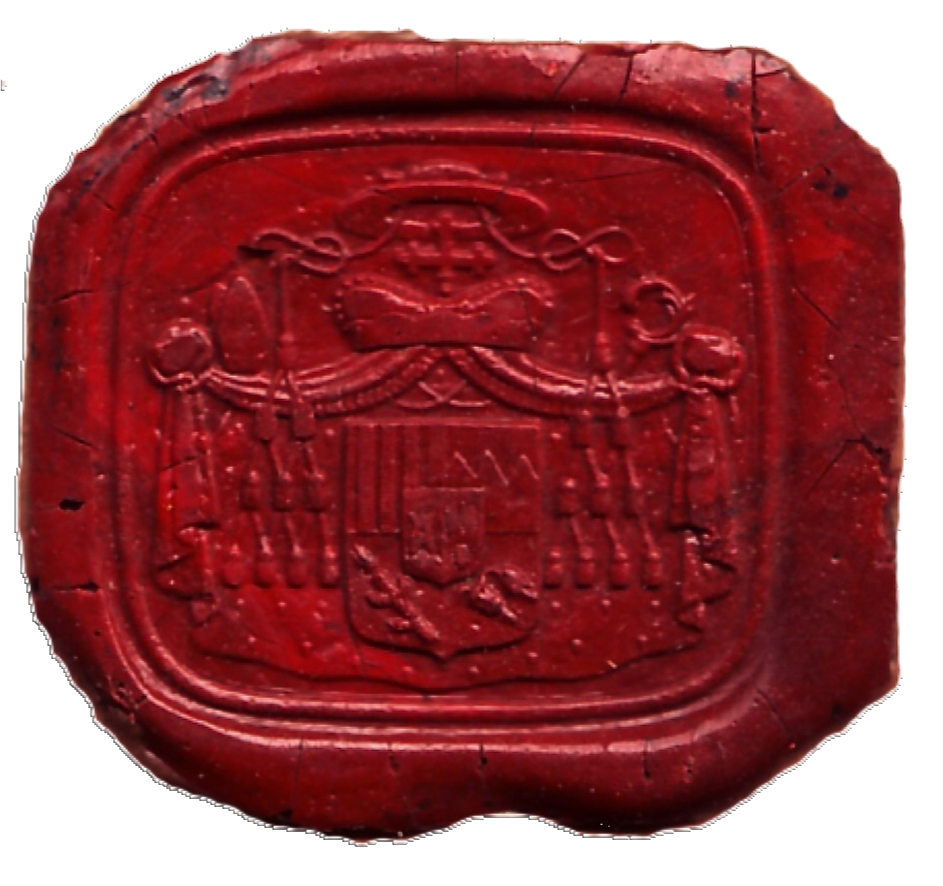 Friedrich Johannes Jacob Celestin von Schwarzenberg Archbishop of Salzburg and of Prague (1849 - 1885) later on.